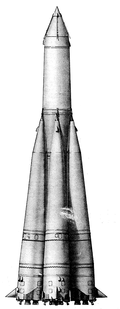 Sputnik Rocket